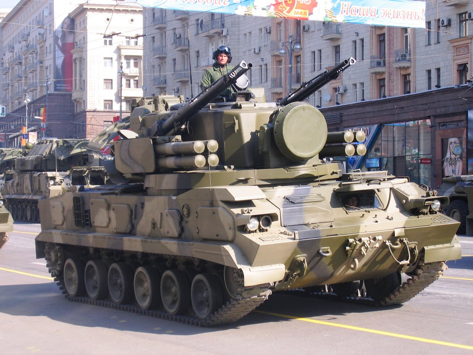 Rehearsal for the 2008 Moscow May Parade.